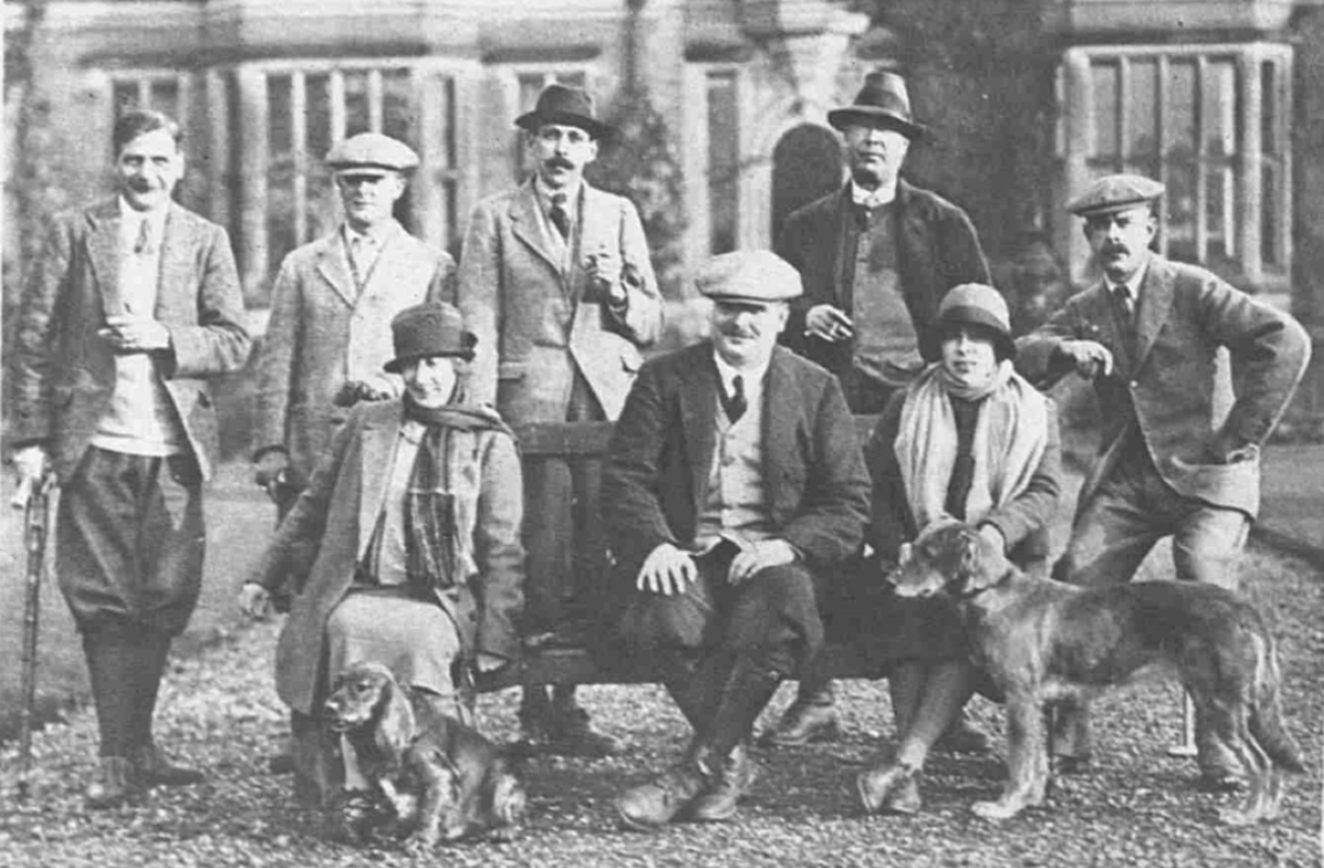 House party at Beaumanor Hall, Woodhouse Eaves in 1926